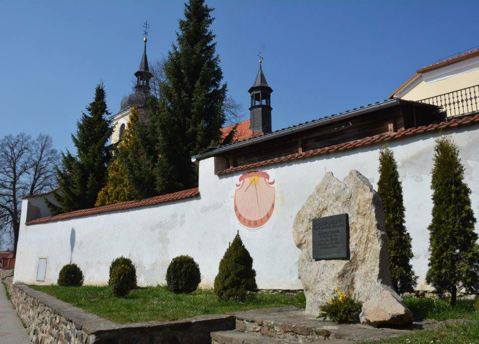 Jan Dismas Zelenka memorial in Louňovice pod Blaníkem, Czechia - neighborhood